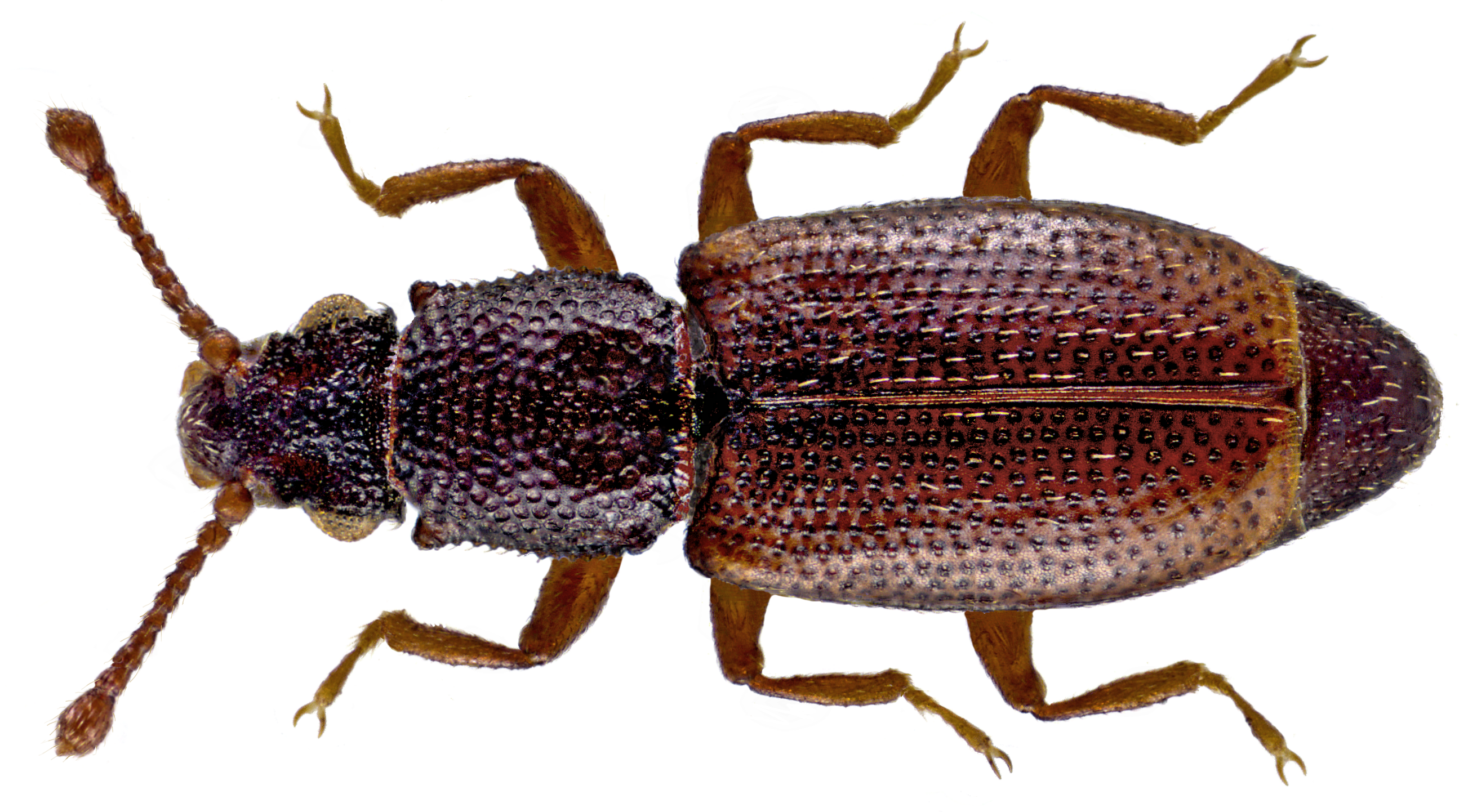 Family: Monotomidae Size: 2,1 mm (1,9-2,5 mm) Origin: Europe Ecology: under rotting plants Location: Germany, Bavaria, Upper Franconia, Selbitz, leg.det. U.Schmidt, 27.VI.2001 Photo: U.Schmidt, 2014